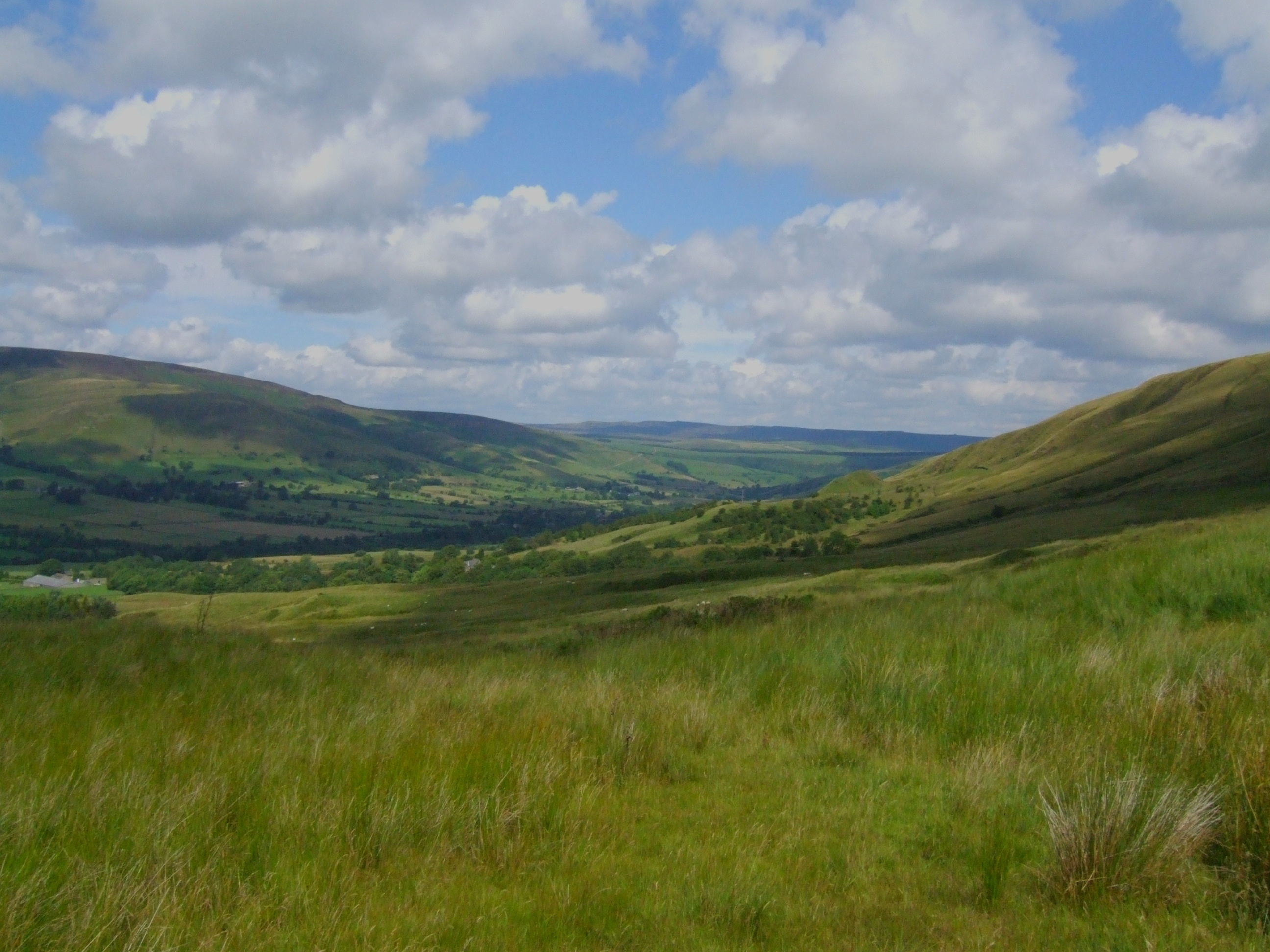 Edale Derbyshire, Peak District. (pron. Ee-dale) is a small Derbyshire village and Civil parish in the Peak District, in the Midlands of England. The Parish of Edale, area 2,844.8ha,[2] is in the Borough of High Peak. Edale is best known to serious walkers as the start (or southern end) of the Pennine Way, and to less-ambitious walkers as a good starting point for beautiful evening or day Peak District walks, reachable by public transport from Sheffield or Manchester, and with two pubs which both supply real ale and food. (prediction) Barber's Booth to Chapel-en-le-Frith road, by Harden Clough.